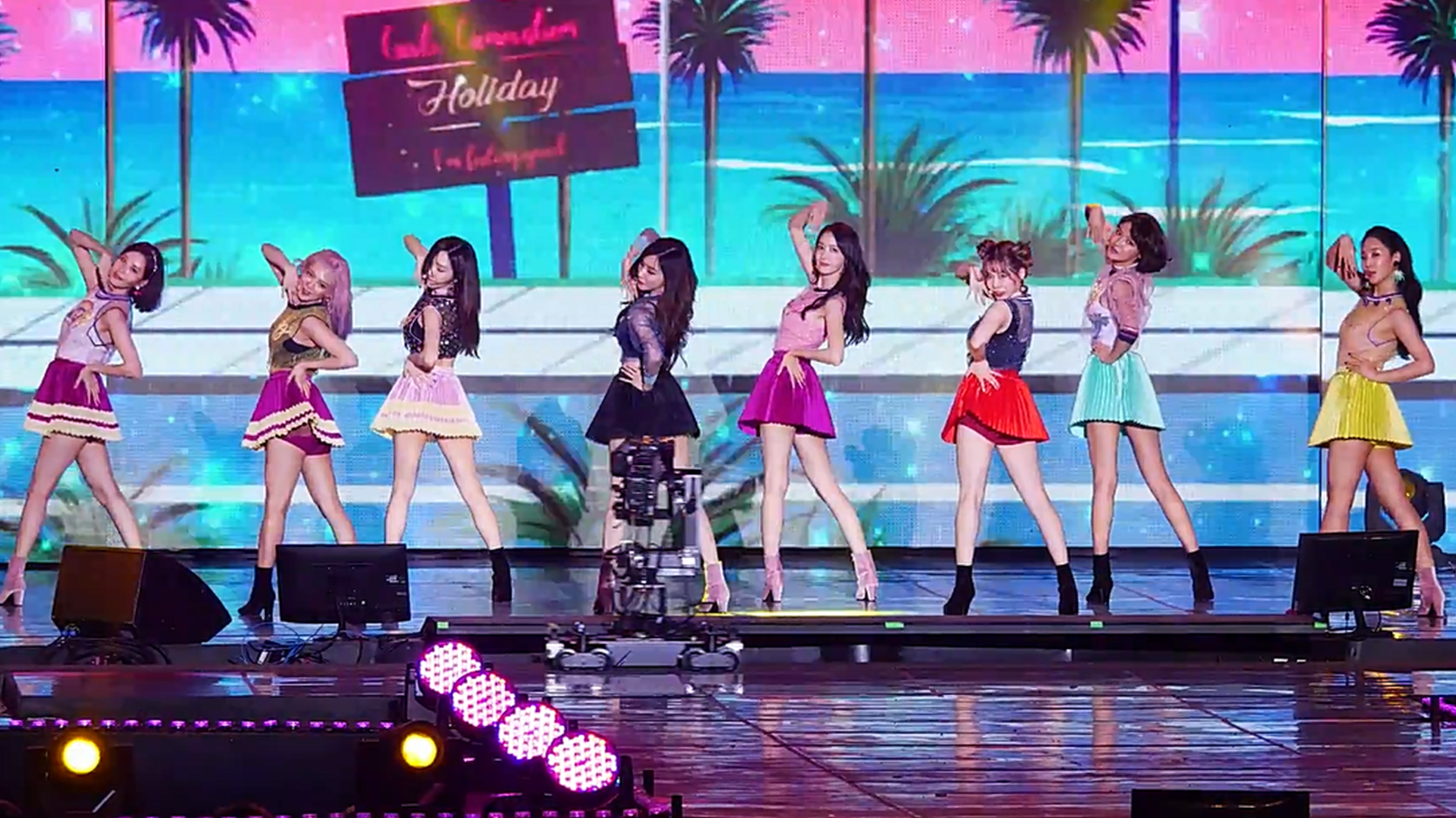 Girls' Generation performing "Holiday" at MBCDMZ Peace Concert on August 12, 2017.